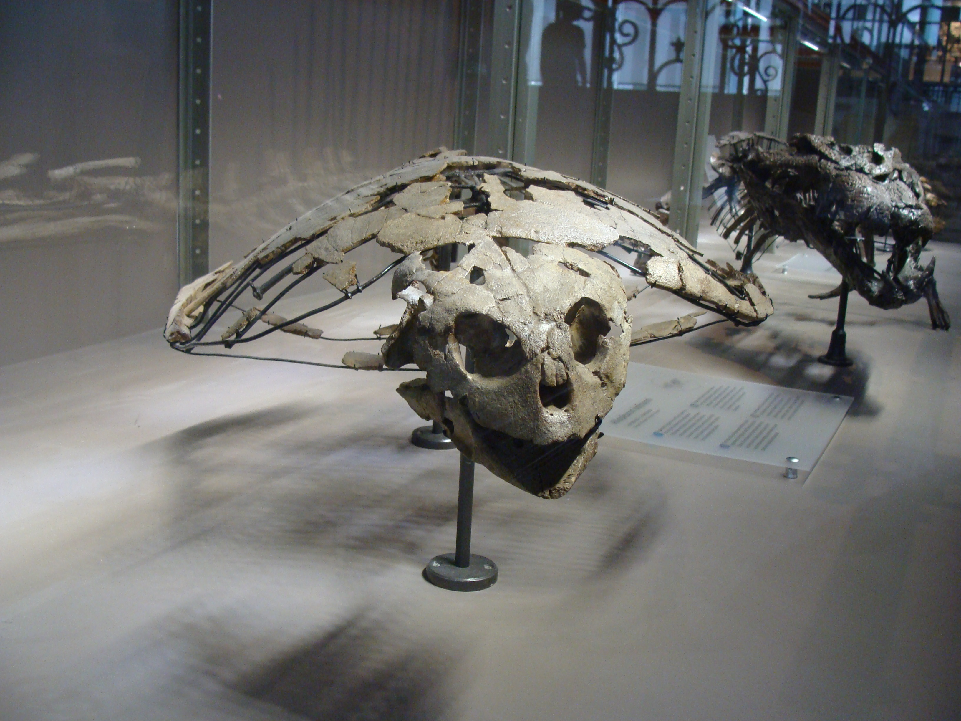 Allopleuron hofmanni in the Royal Belgian Institute of Natural Sciences.